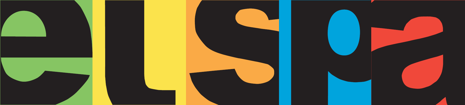 ELSPA's logo